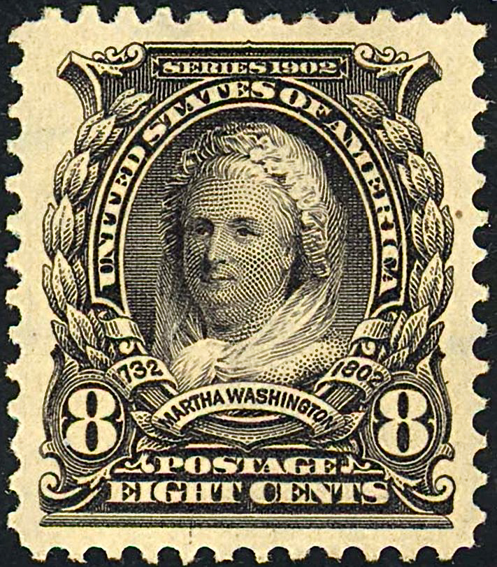 Martha_Washington22_1903_Issue-8c.jpg